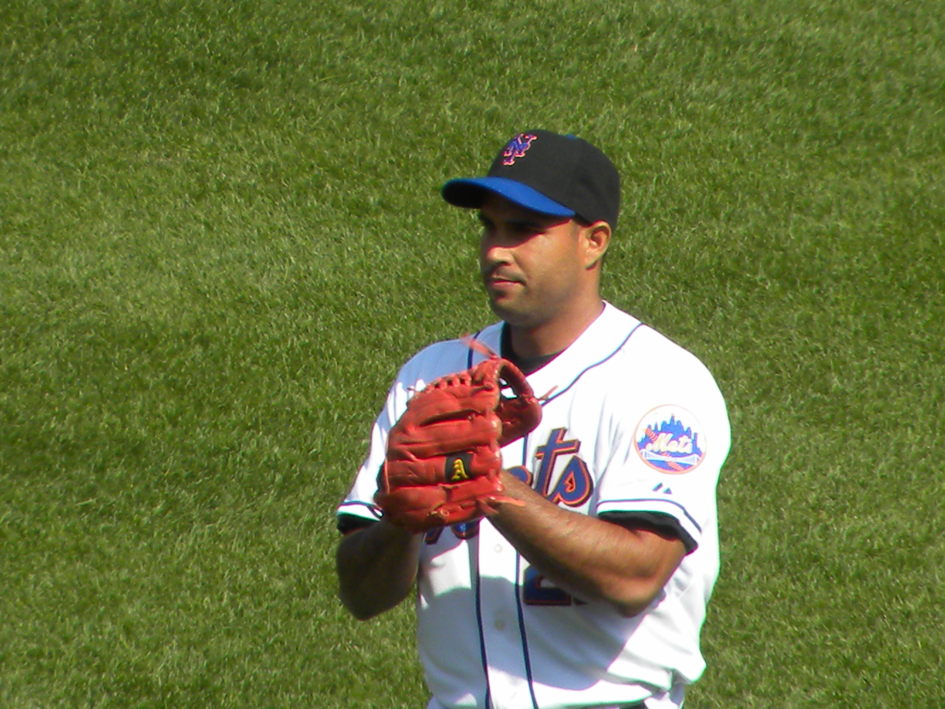 Raúl Valdés